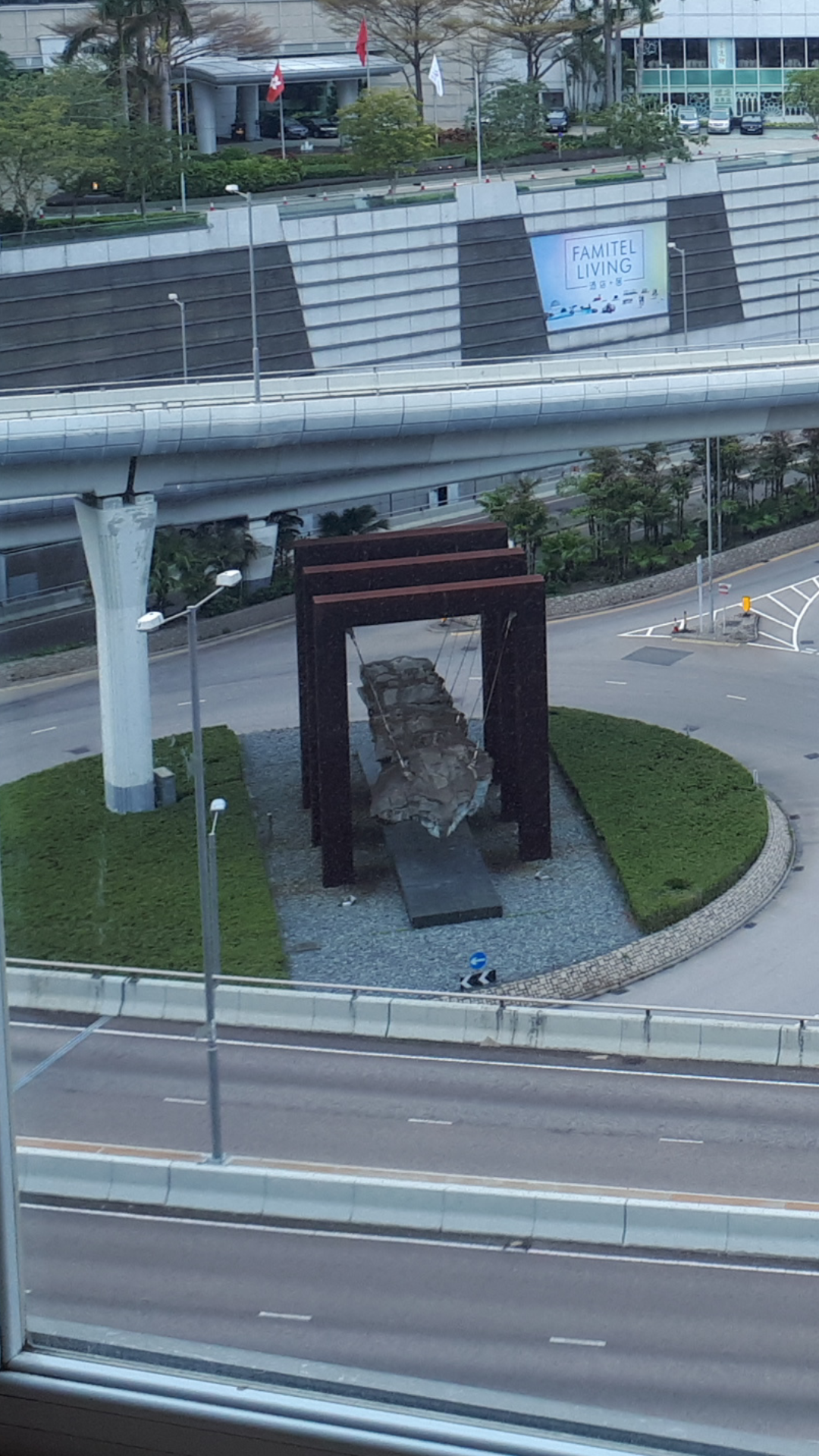 Rumsey Rock is a rock found in the Hung Hom harbour of Hong Kong.